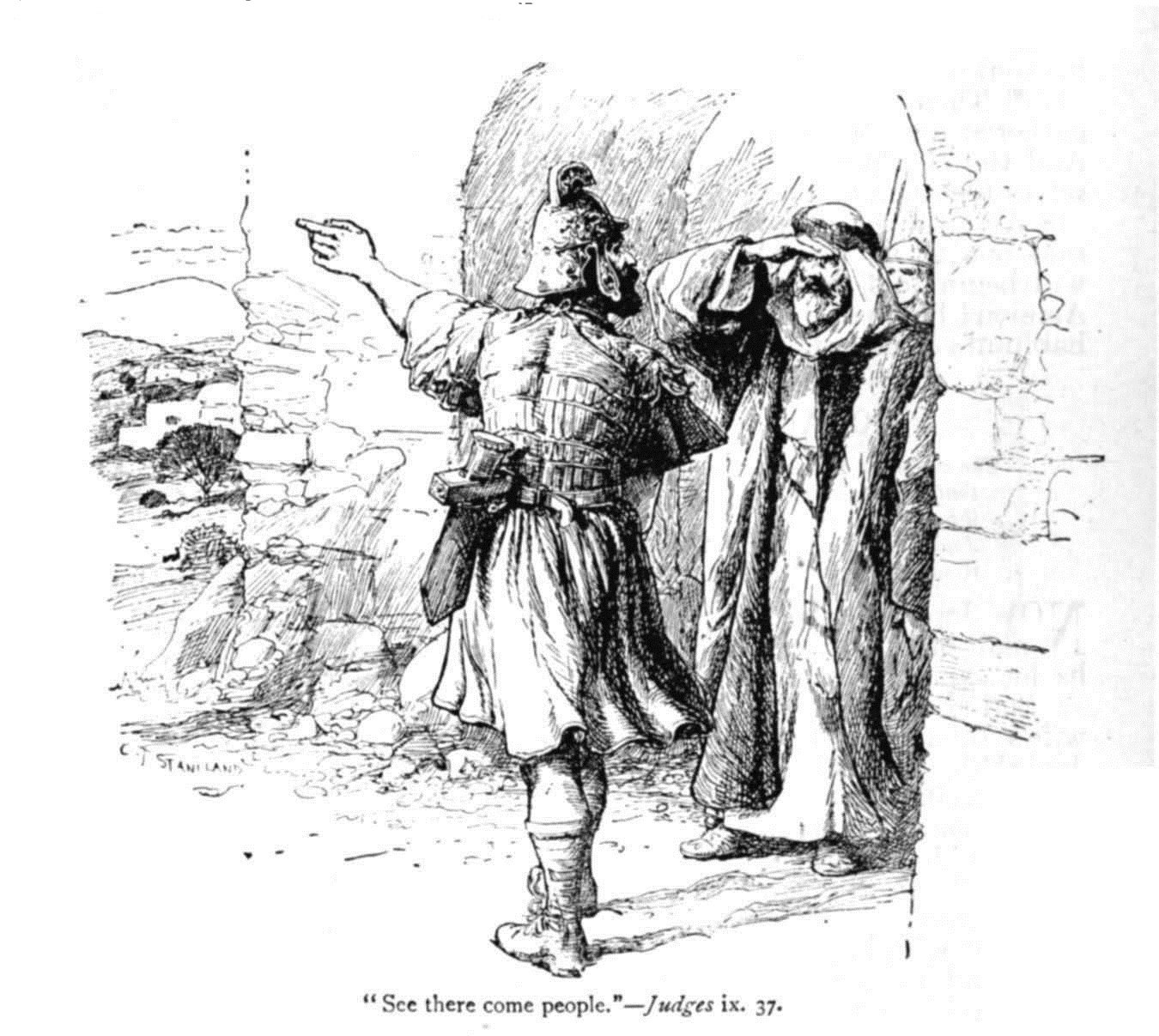 Depiction of Gaal and Zebul from the Book of Judges